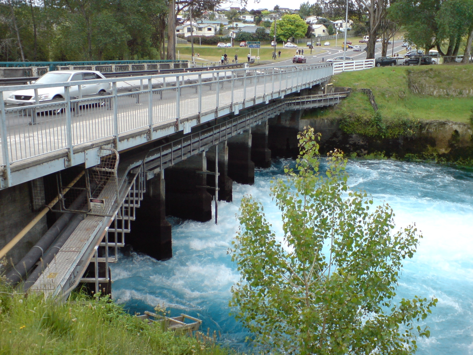 The bridge carrying State Highway 1 over the Waikato River, in Taupo, New Zealand. Underneath are the (hydropower) control gates regulating flow from Lake Taupo towards the Huka Falls and the hydropower stations further on.